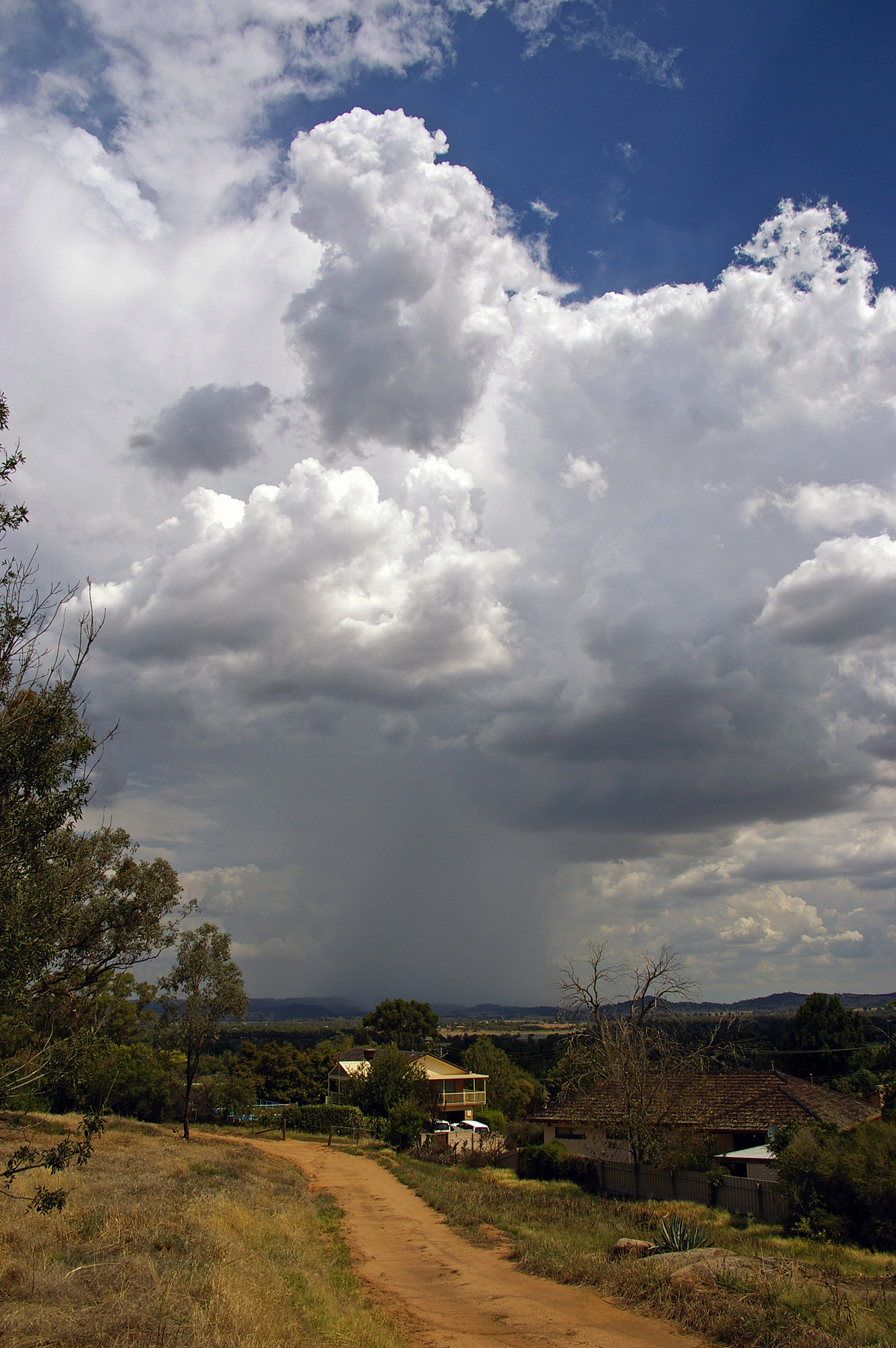 Heavy percipitation falling on the Gregagoo hills from a Cumulonimbus calvus cloud.